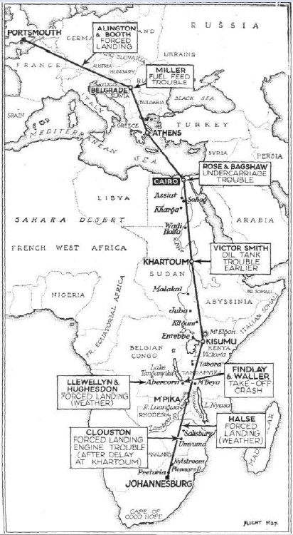 Map showing the developements and withdrawals of entrants in the Schlesinger Race